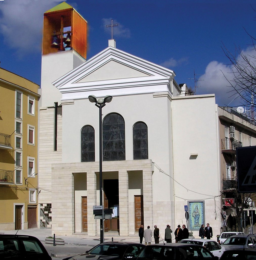 Chiesa della Mercede (città di San Cataldo, provincia Caltanissetta) Advanced... Chiesa della Mercede (città di San Cataldo, provincia Caltanissetta) Advanced... Chiesa della Mercede (città di San Cataldo, provincia Caltanissetta) (1).jpg